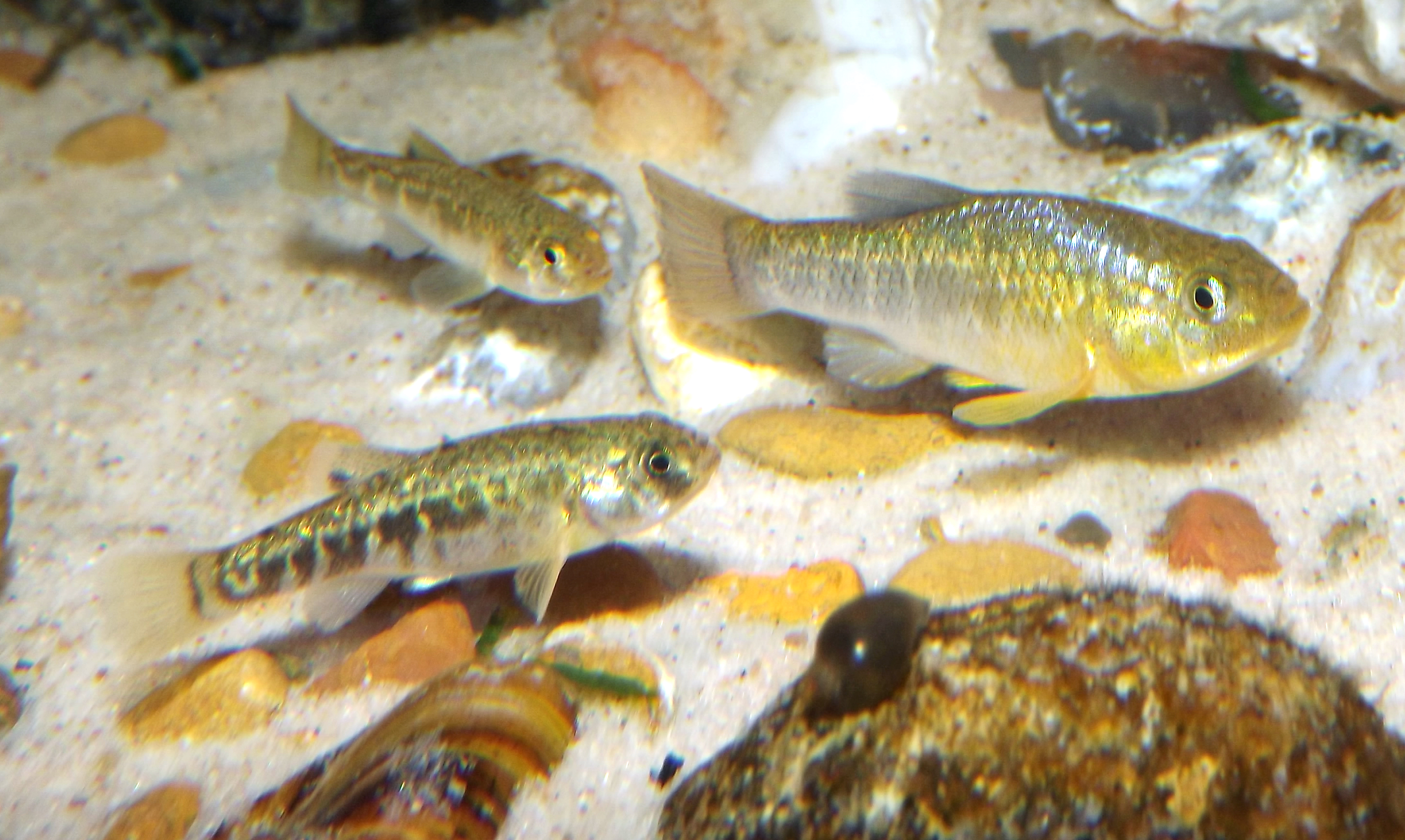 Cyprinodon rubrofluviatilis collected from Canadian River, Hutchinson County, Texas.